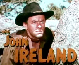 Cropped screenshot of John Ireland from the trailer for the film Vengeance Valley.